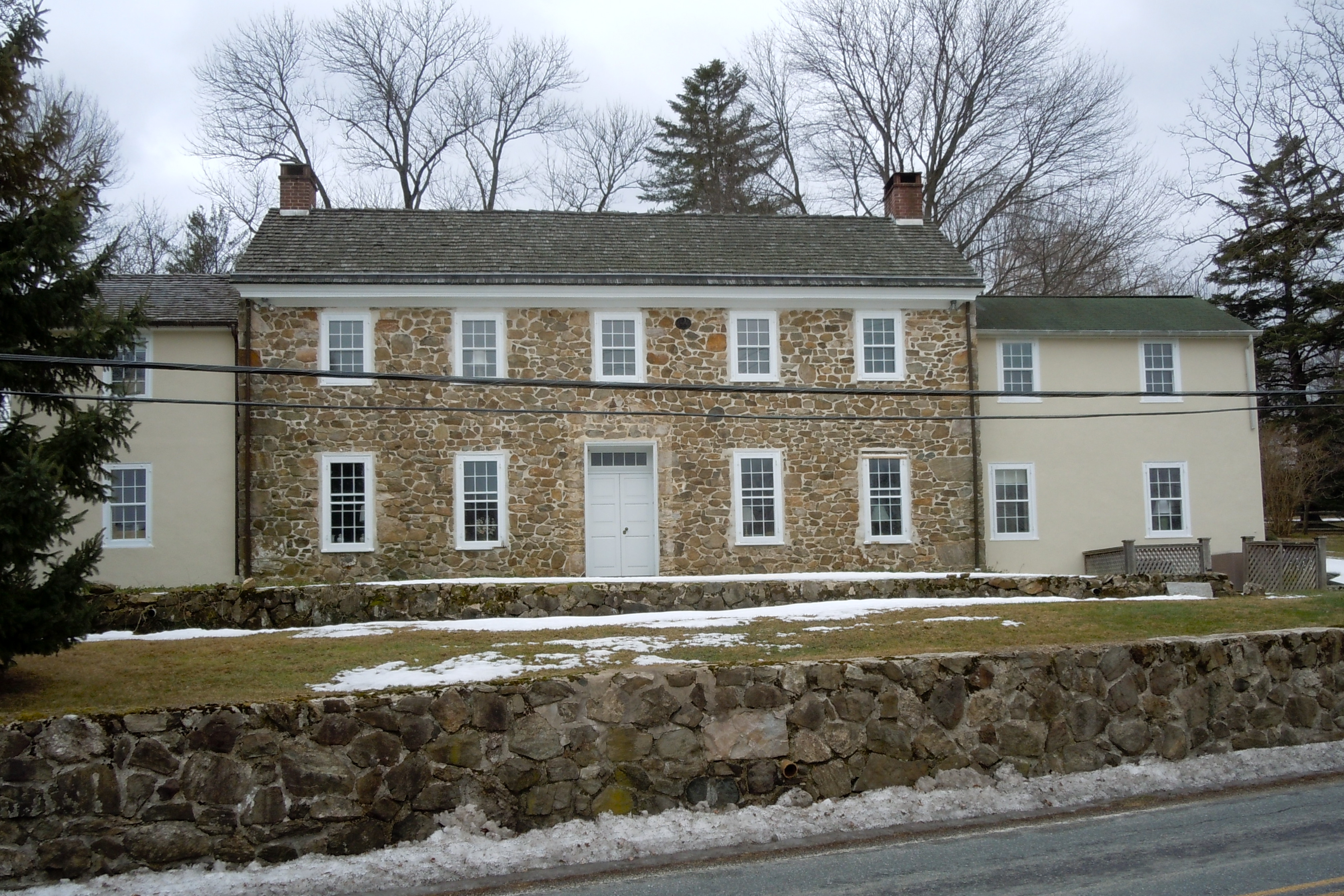 Martin-Little House on the NRHP since July 2, 1973. Located south of Phoenixville off Pennsylvania Route 113 on Church Road, Charlestown Township, Chester County, Pennsylvania.